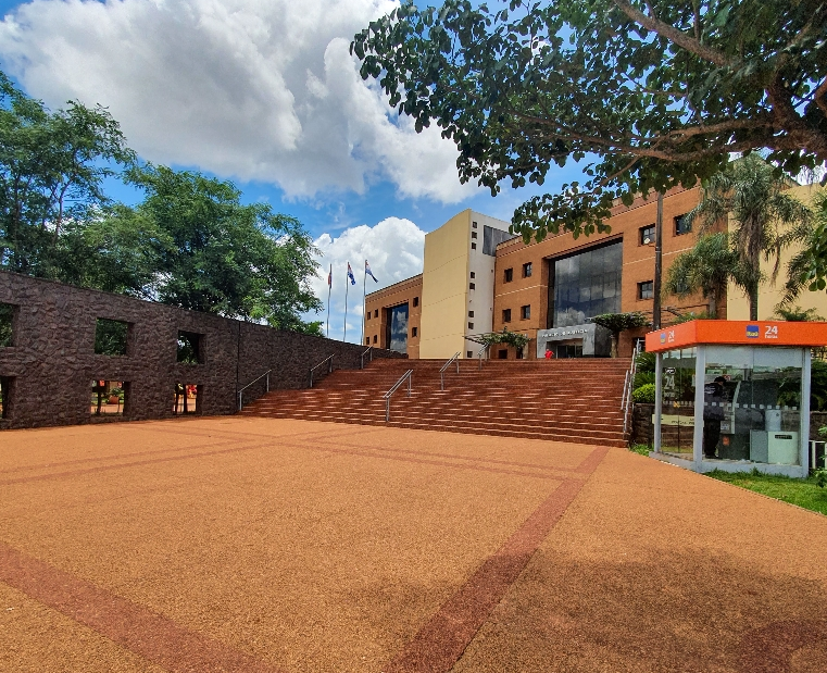 Courthouse of Pedro Juan Caballero